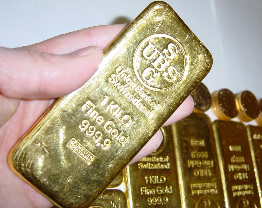 One kilogram of 999.9 gold in ingot form.